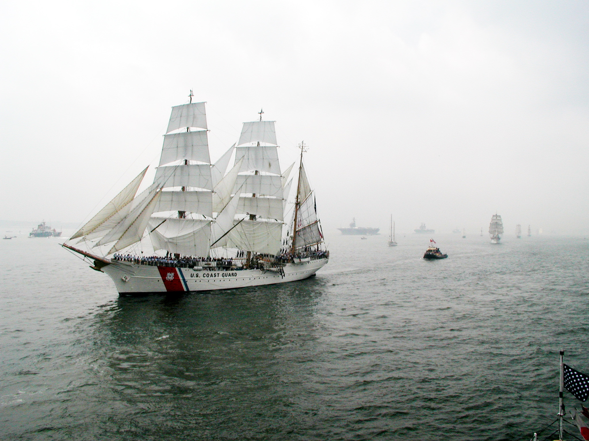 NEW YORK HARBOR, NY (July 4, 2000) -- The U.S. Coast Guard Academy training barque Eagle leads a group of tall ships though the haze in the parade of sail event during International Naval Review 2000 (INR 2000). INR 2000 is the Navy's congressionally mandated observance of the millennial year and recognition of the Nation's 224th birthday. Over 25,000 sailors and marines from 20 countries will enjoy this week long "Celebration of Seapower for the Millennium"U.S. Navy photo by Photographer's Mate 1st Class Johnny Bivera (RELEASED) en: Naval Recruiting Command Image Library